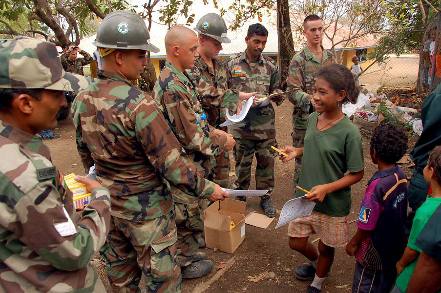 PORT MORESBY, Papua New Guinea (Aug. 8, 2008) U.S. Navy Seabees, Royal Australian Engineers from 1st Combat Engineer Regiment and members of the Indian Indian Army Corps of Engineers give out pencils, crayons and coloring books to children at Pari Village, Papua New Guinea, after completing renovations on the village's main clinic. The three military units joined forces to provide humanitarian civic assistance as part of Pacific Partnership 2008. (U.S. Navy photo by Mass Communication Specialist 2nd Class Mark Logico/Released)